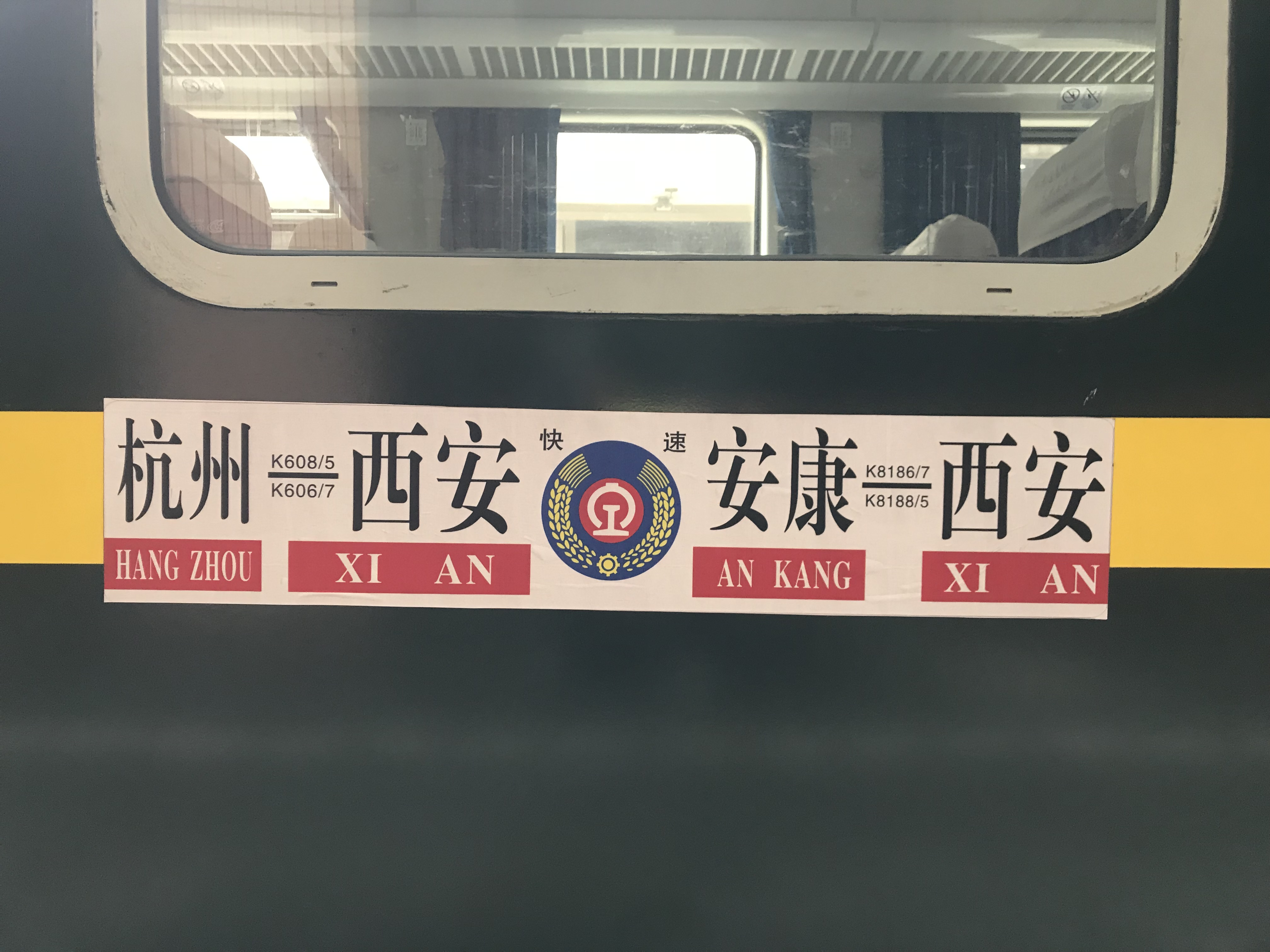 Just got upgraded